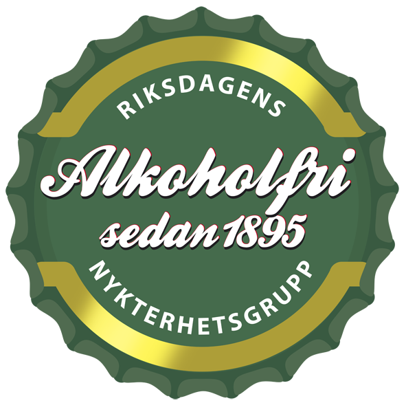 Logotype - Riksdagens nykterhetsgrupp